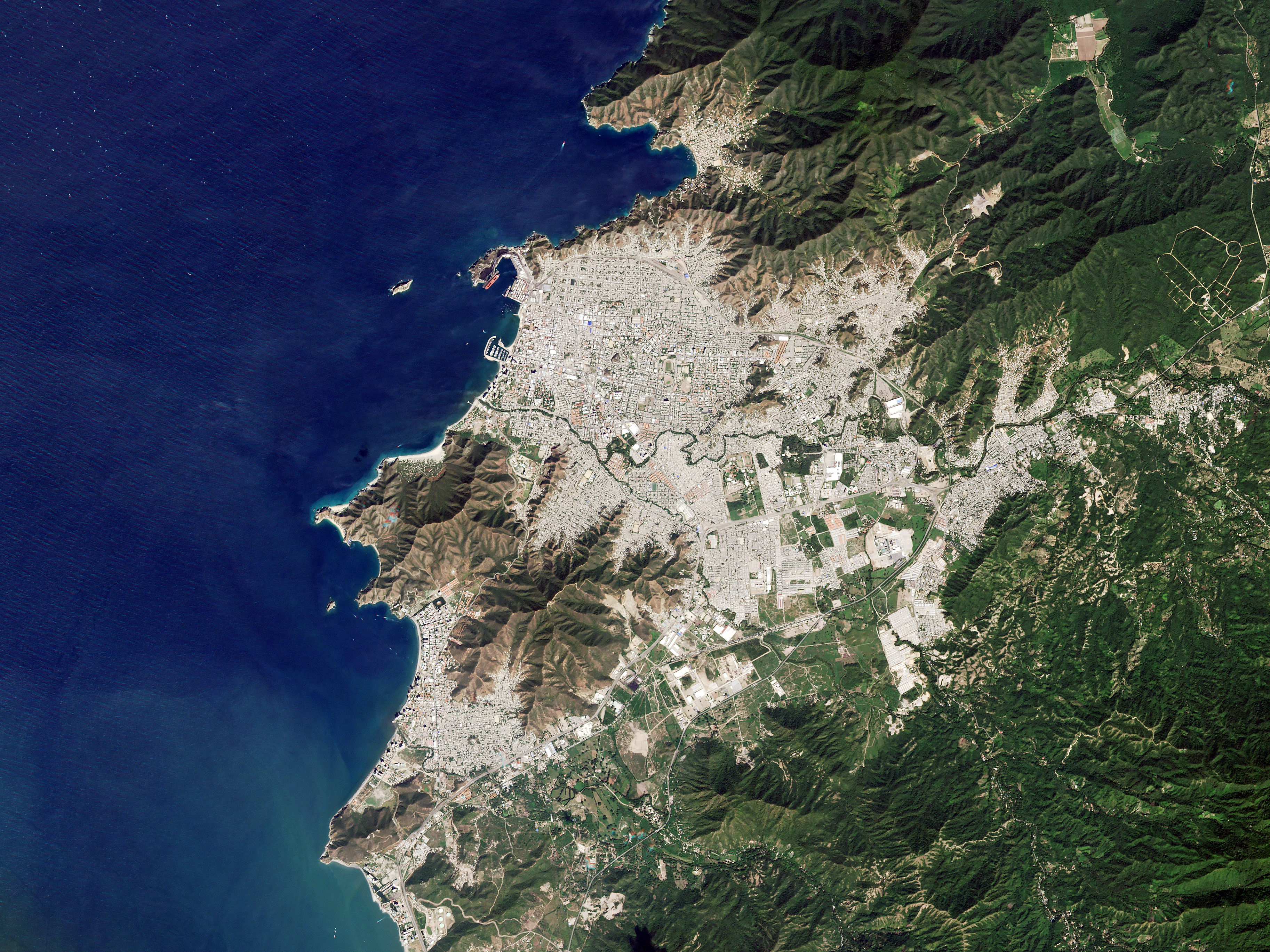 Santa Marta, Colombia December 18, 2016 Since its founding in 1525—this conquistador's colony is the second oldest of its kind in South America. Today, tourists visit its clear beaches for dolphin spotting, and take scenic hikes into the local mountains to learn about the ancient Tayrona culture. Image taken by a RapidEye satellite